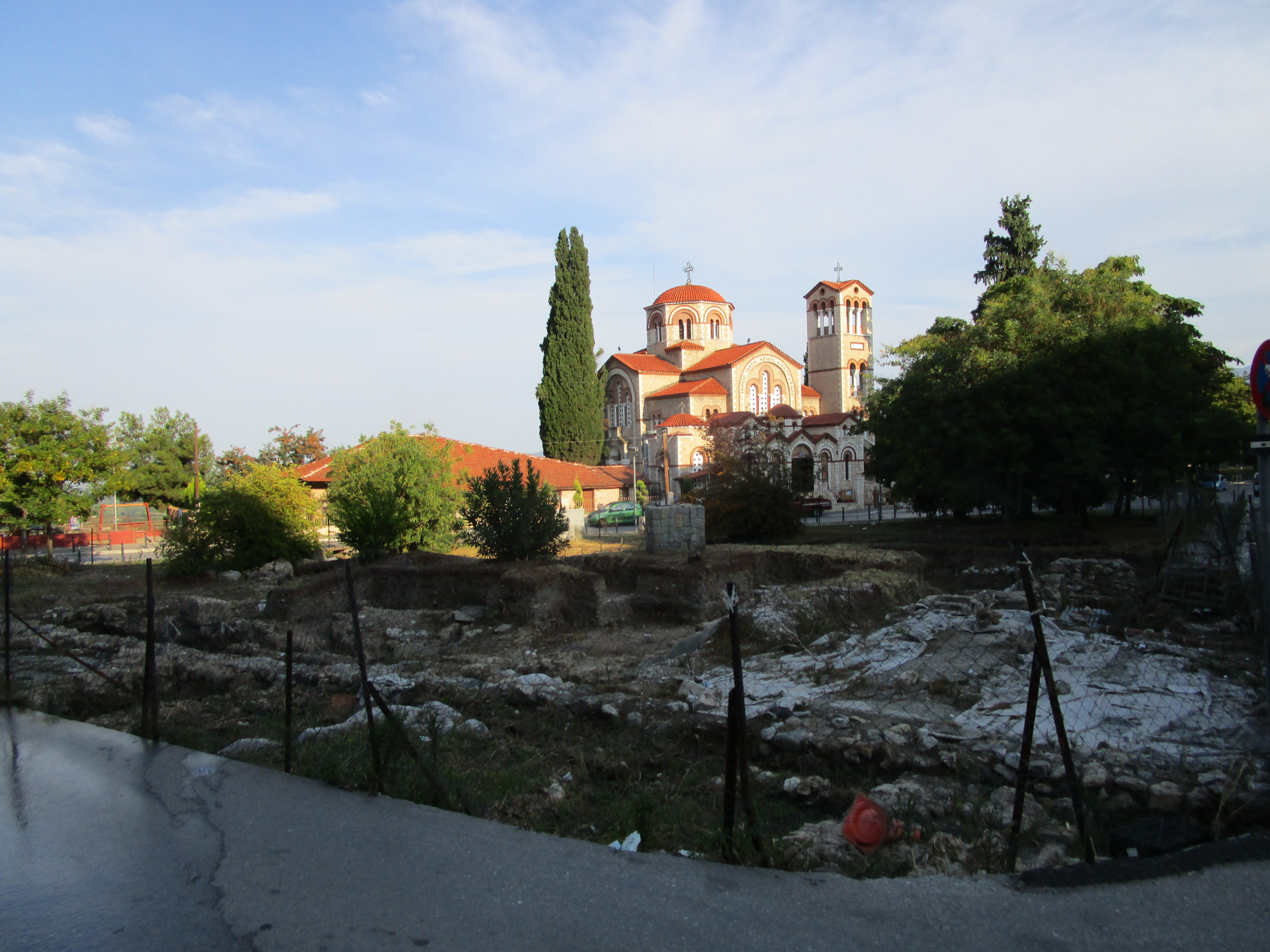 Yoanis Elimon, Ber